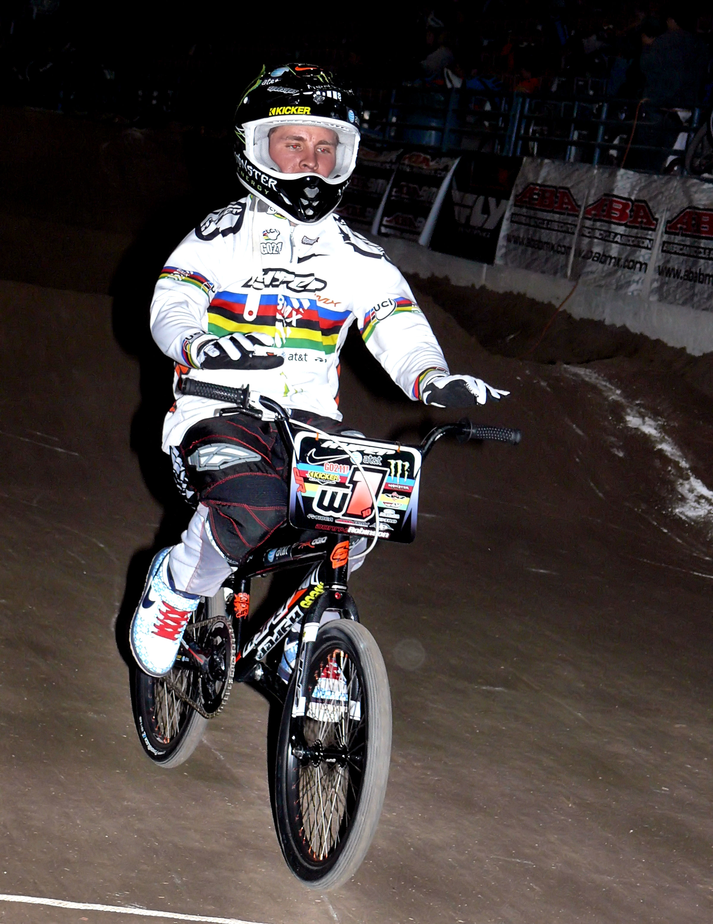 2010 ABA BMX Silver Dollar Nationals - Donny Robinson - World Champion